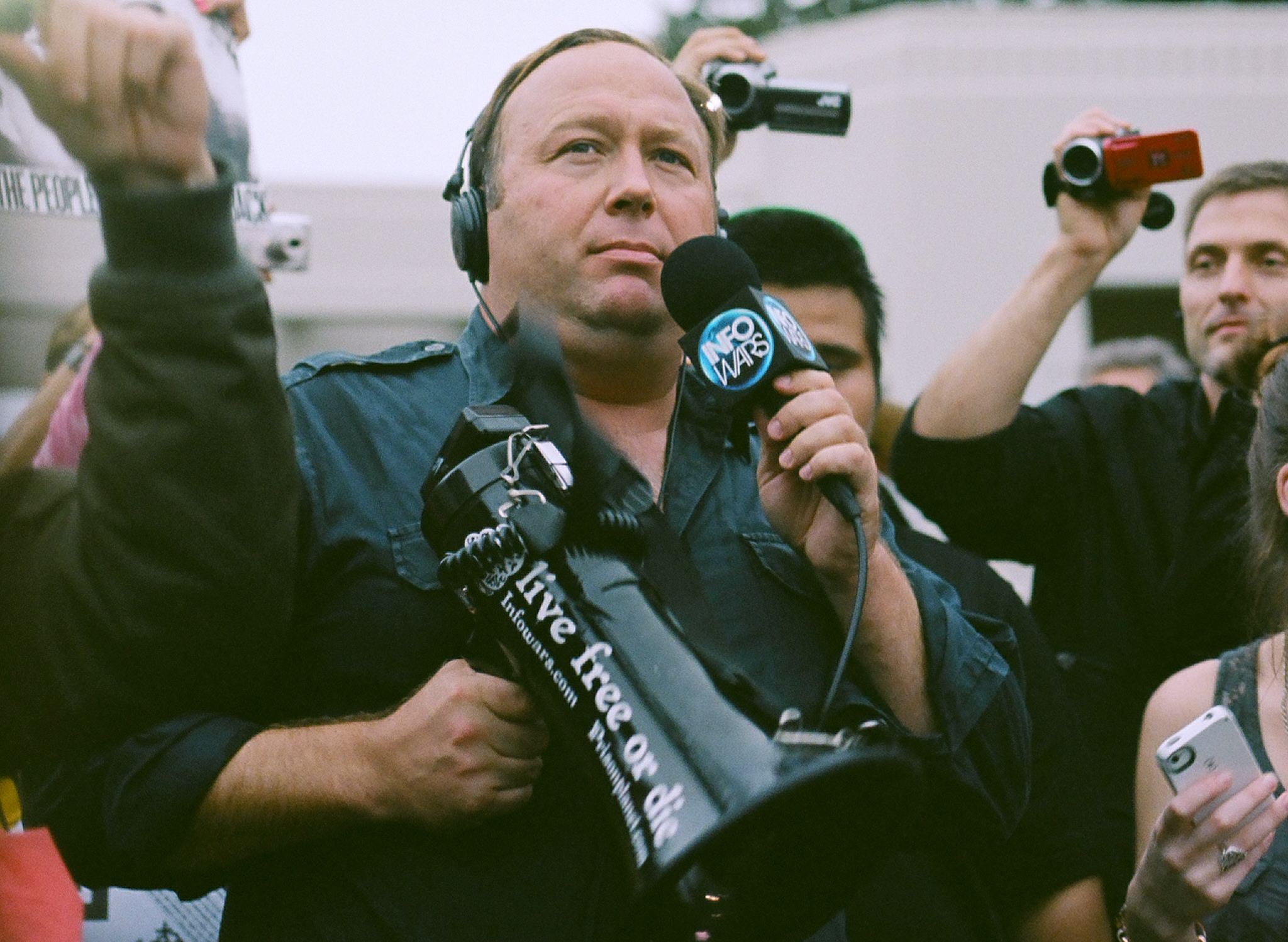 Alex Jones protesting in Dallas, TX